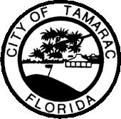 Seal of Tamarac, Florida (1963-1988).